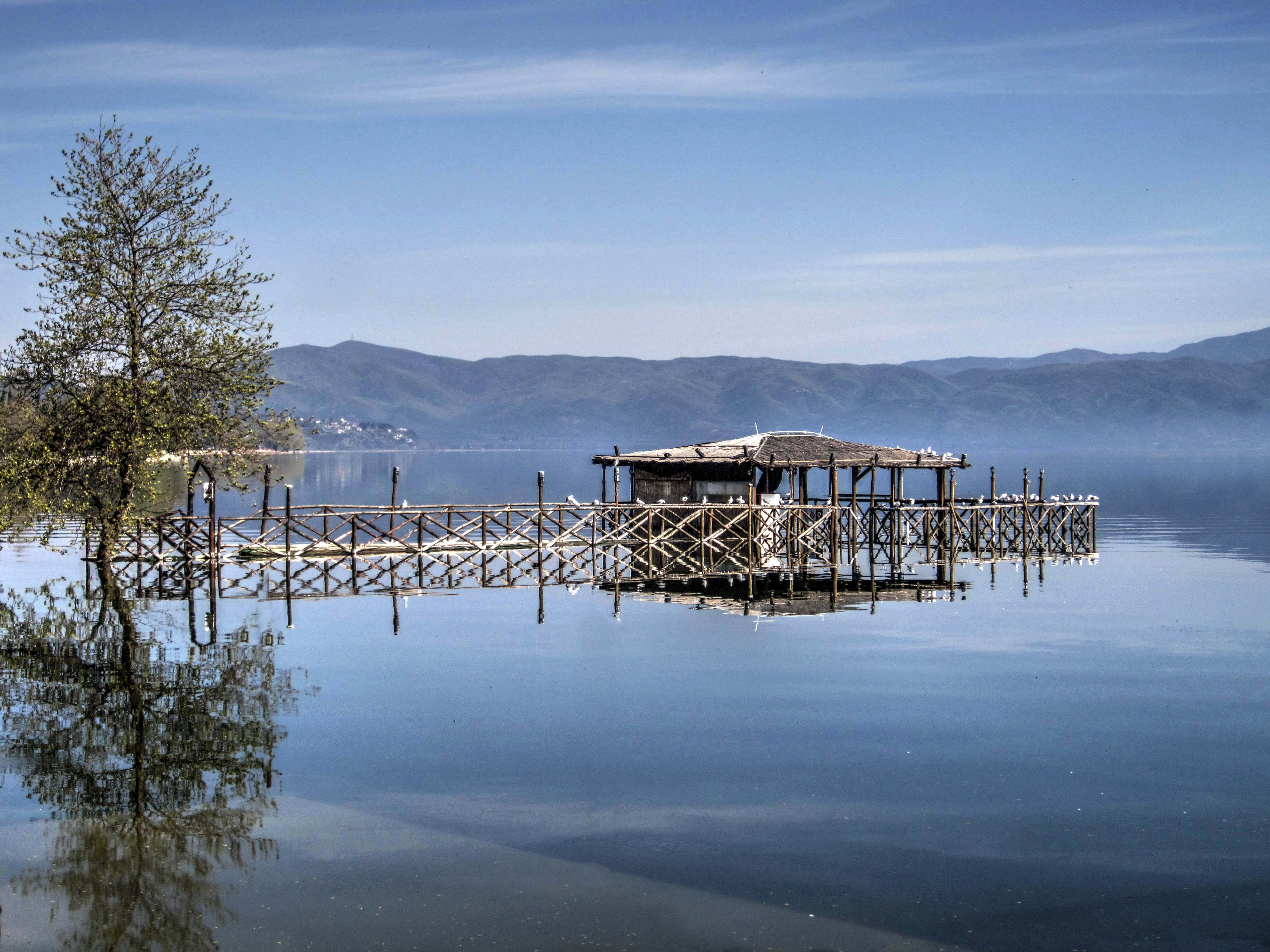 Mandra house in Dojran Lake